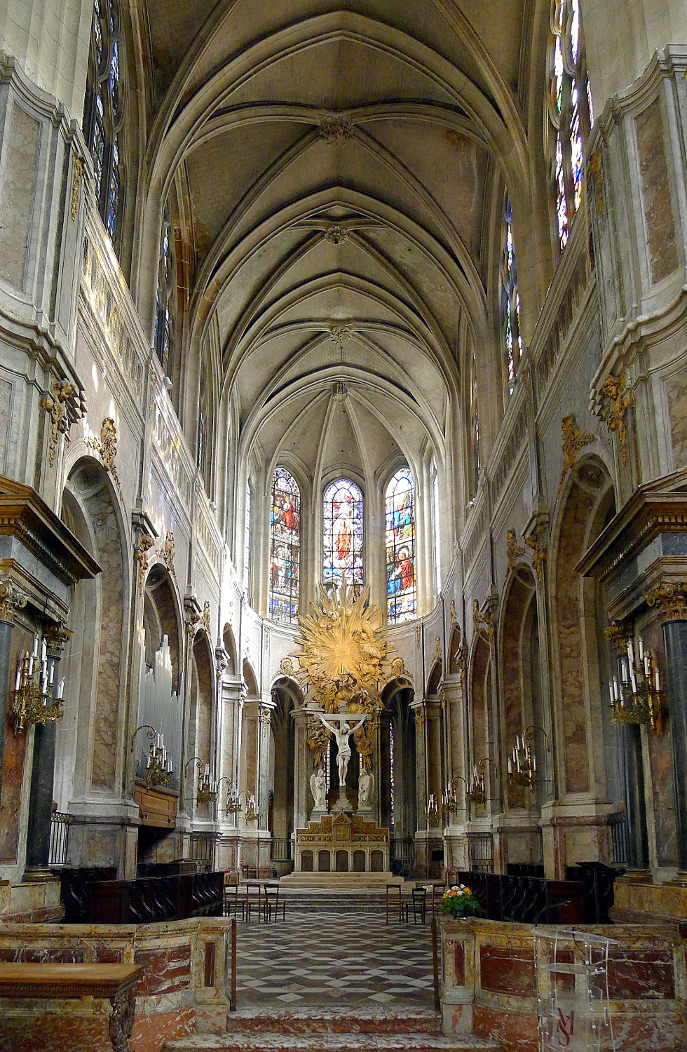 Saint-Merri church - Paris